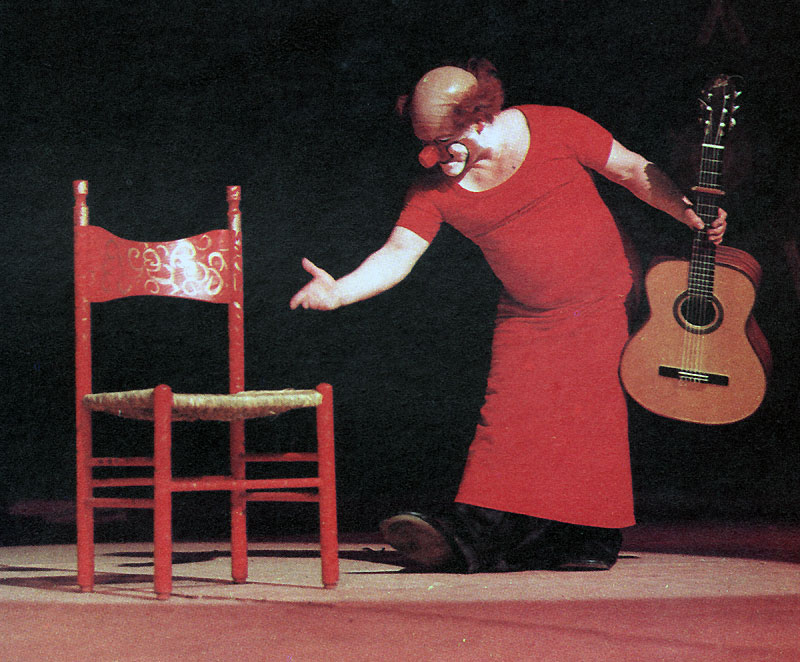 Charlie Rivel